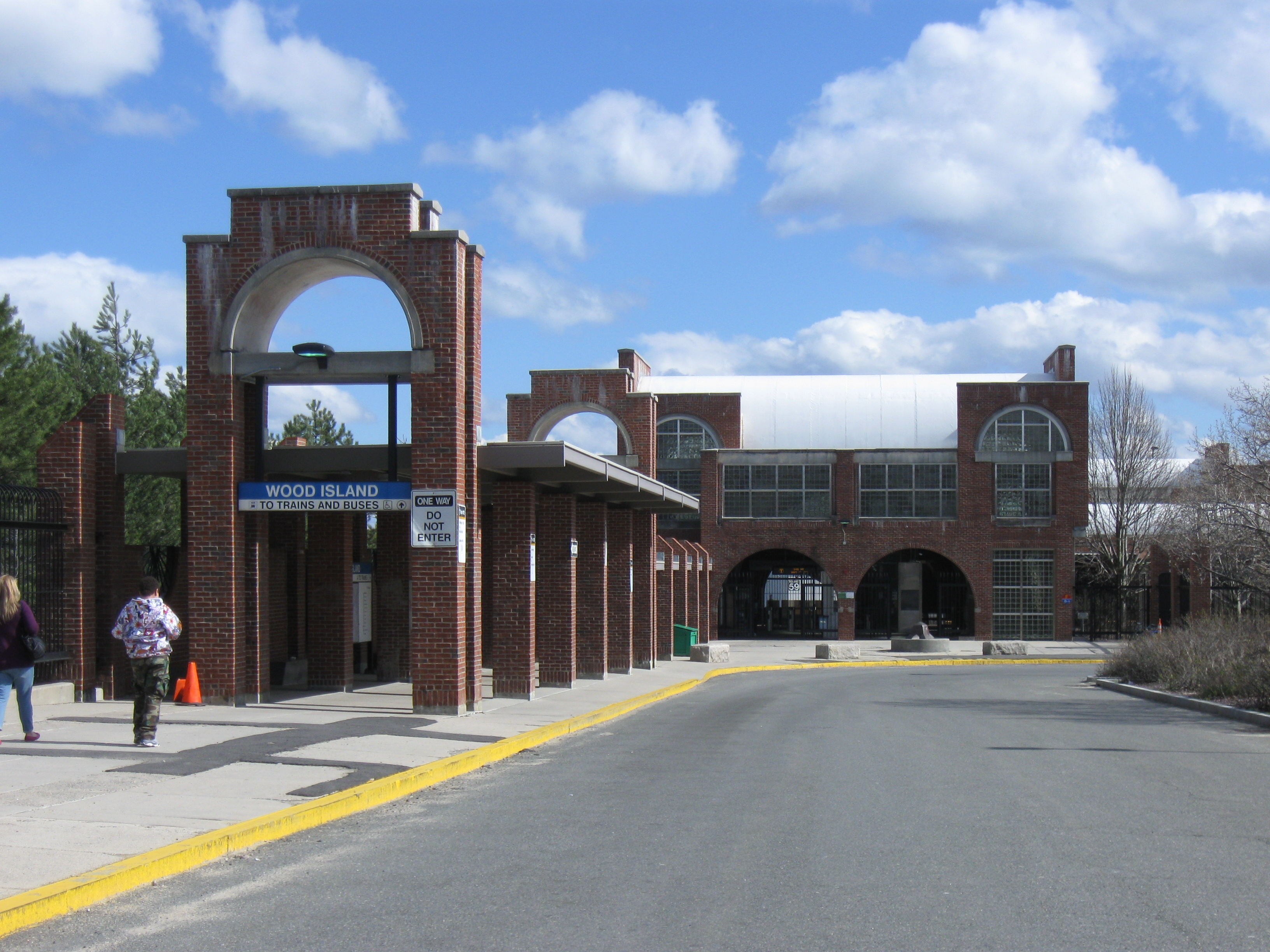 Bennington Street entrance to Wood Island station, Boston, MA